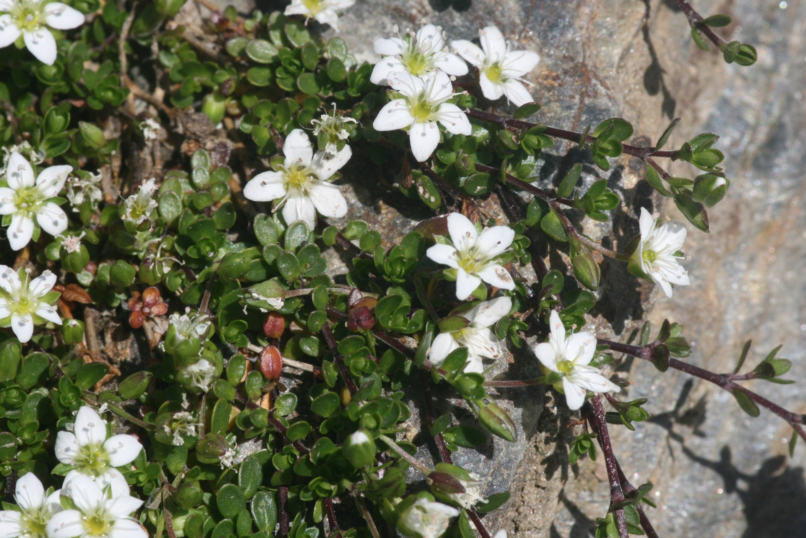 Arenaria biflora